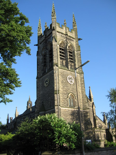 All Saints' parish church, Branstone Road, Burton upon Trent, Staffordshire, seen from the north